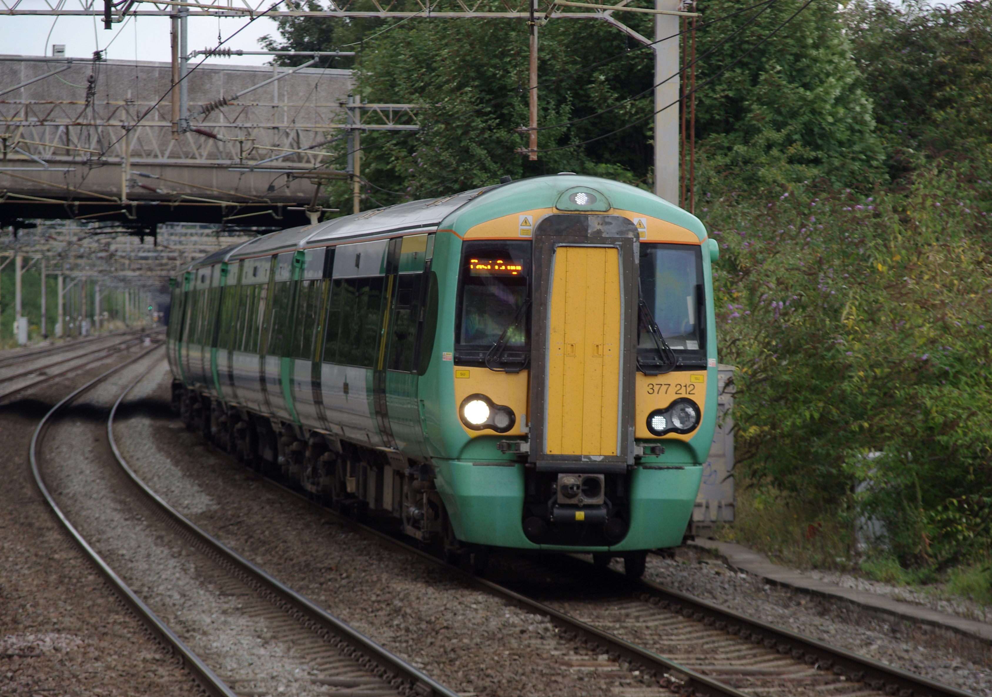 Southern Electrostar EMU 377212 approaches Watford Junction with a service from Milton Keynes to Croydon.